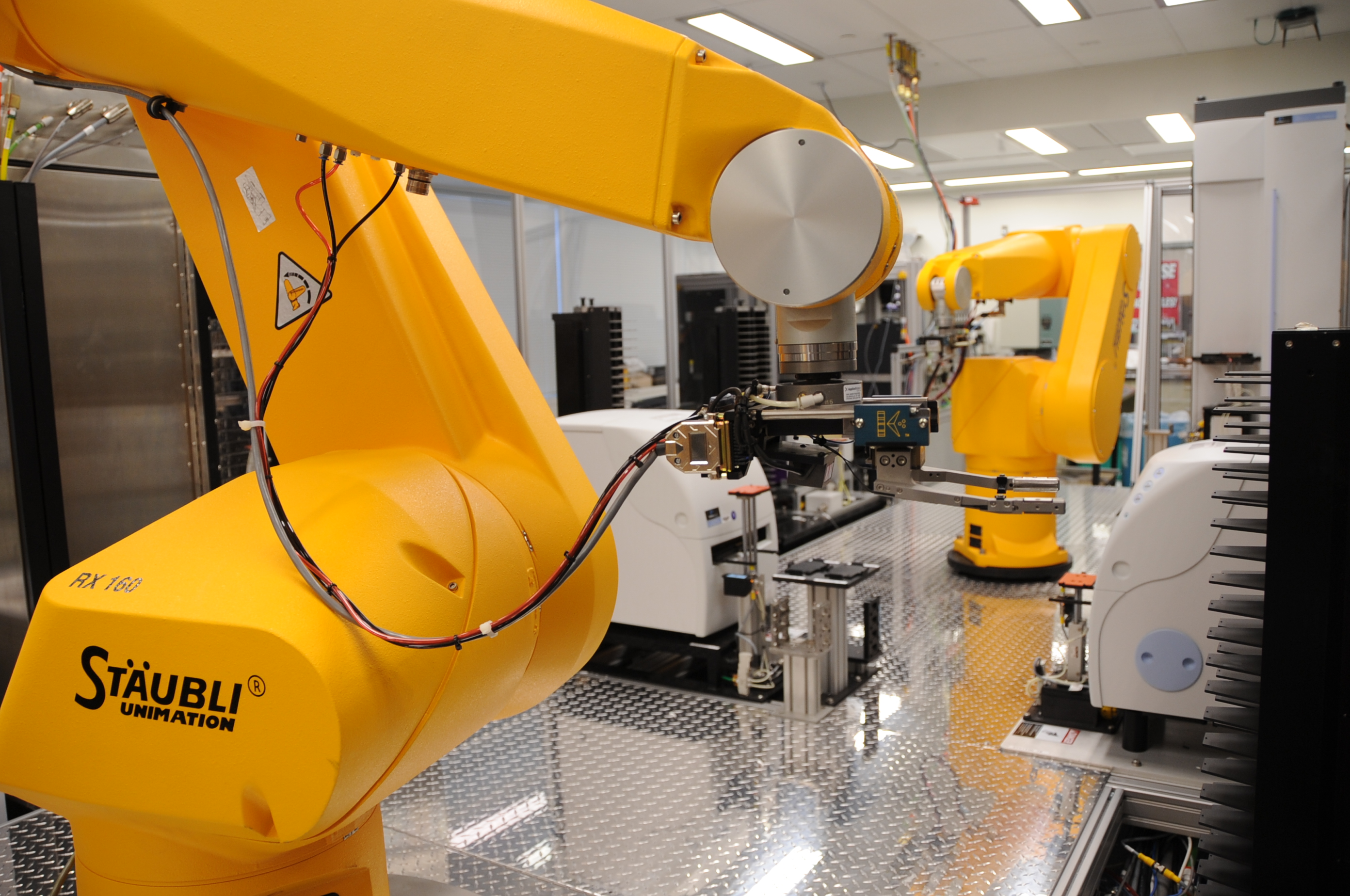 A robot arm (foreground) retrieves assay plates from incubators and places them at compound transfer stations or hands them off to another arm (background) that services liquid dispensers or plate readers.